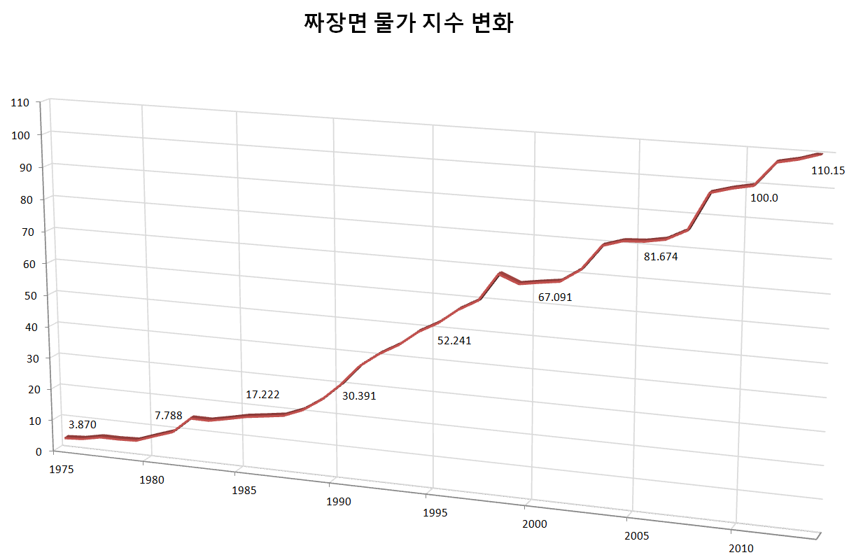 CPI of Jajangmyeon from 1975 to 2013 at Korea The reference of data: Korean Statistical Information Service